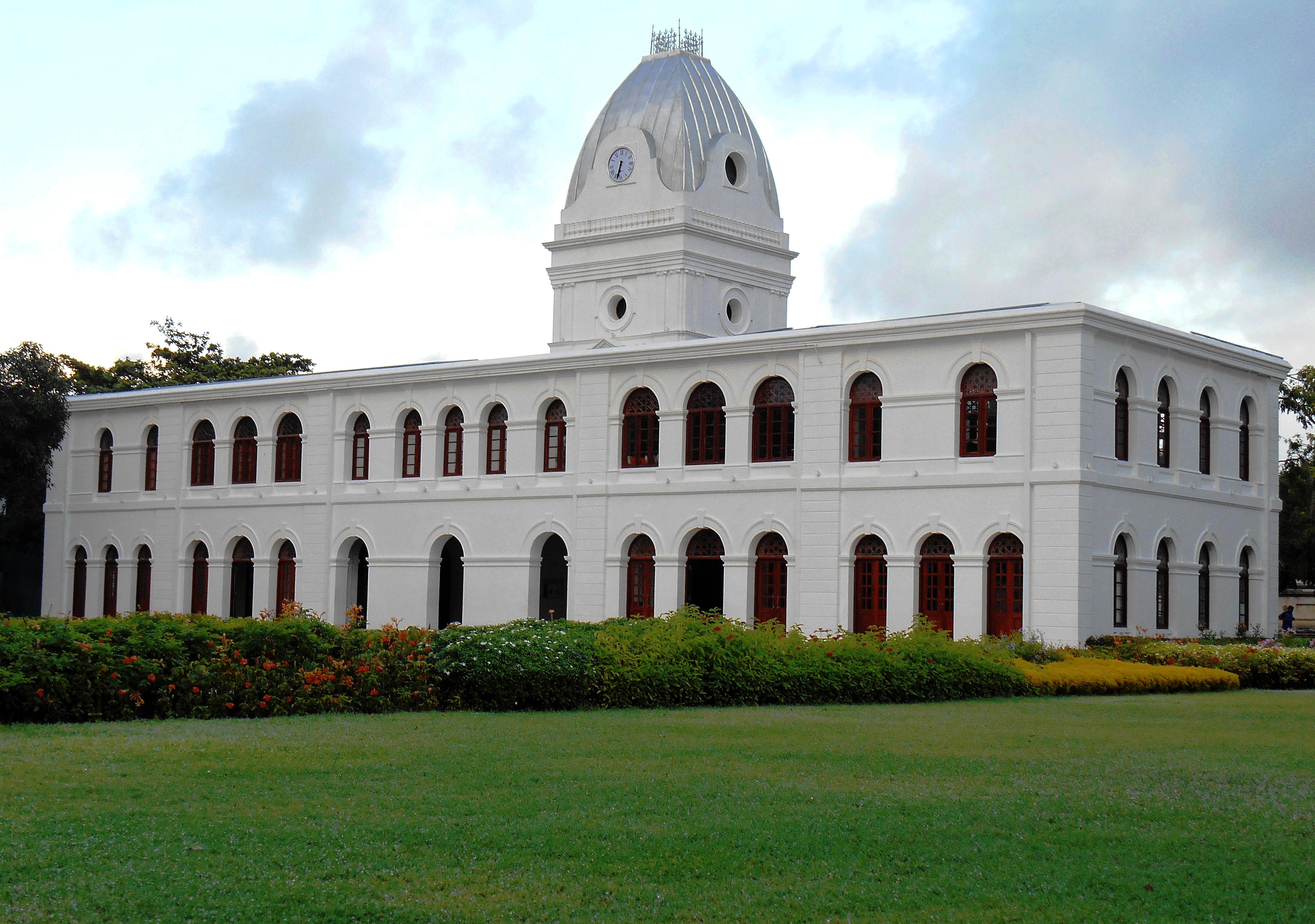 Photograph of Arcade Independence Square, Colombo, Sri Lanka